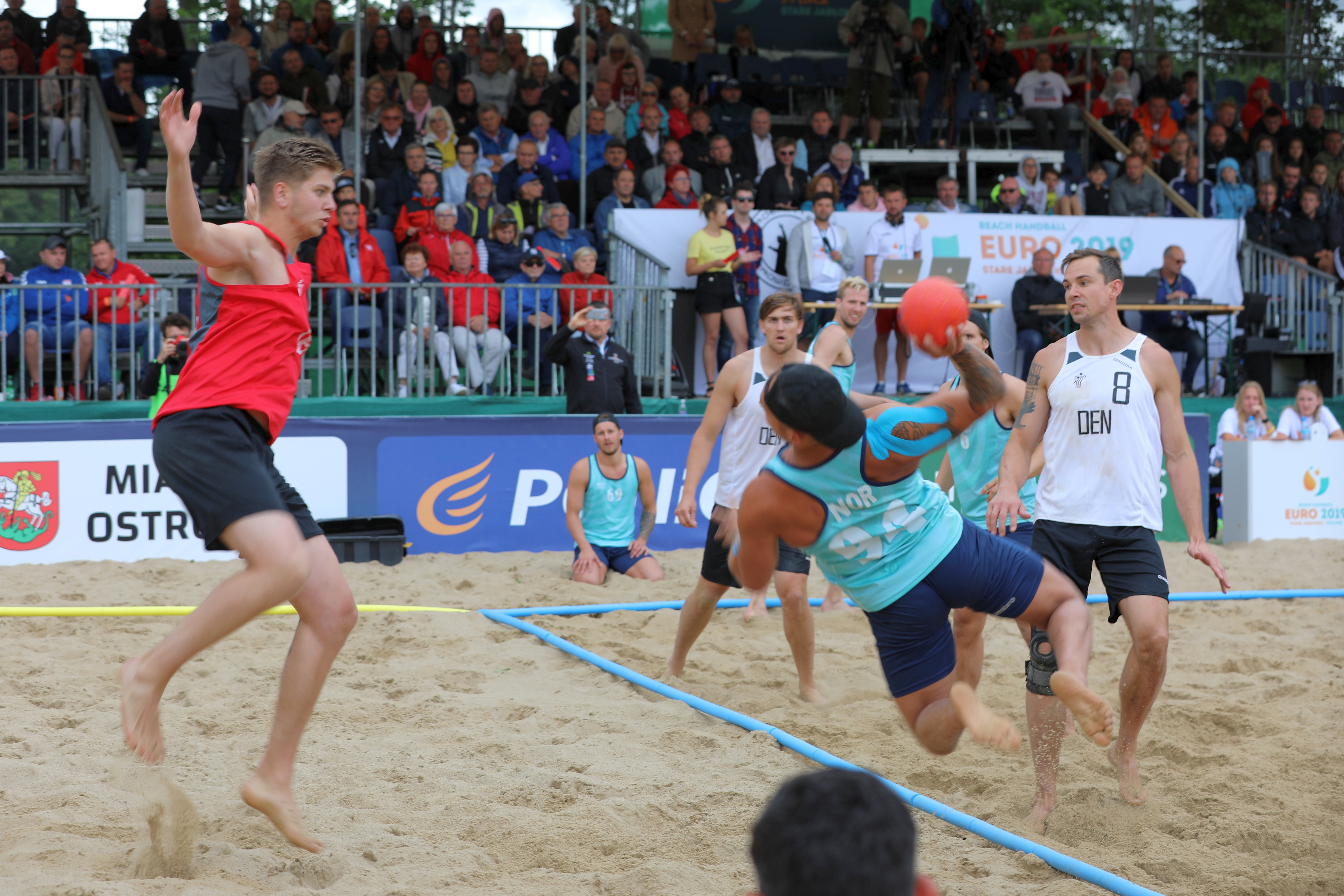 Beach handball Euro; Day 6: 7 July 2019 – Men's Final – Denmark-Norway 2:0 (25:18, 19:16)